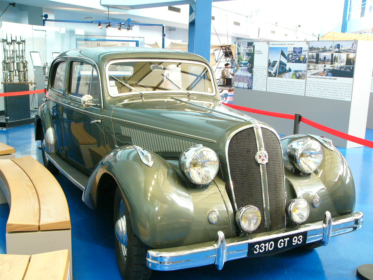 1949 Hotchkiss Type 686 S49 Gascogne at the Musée de l'Air at Le Bourget.